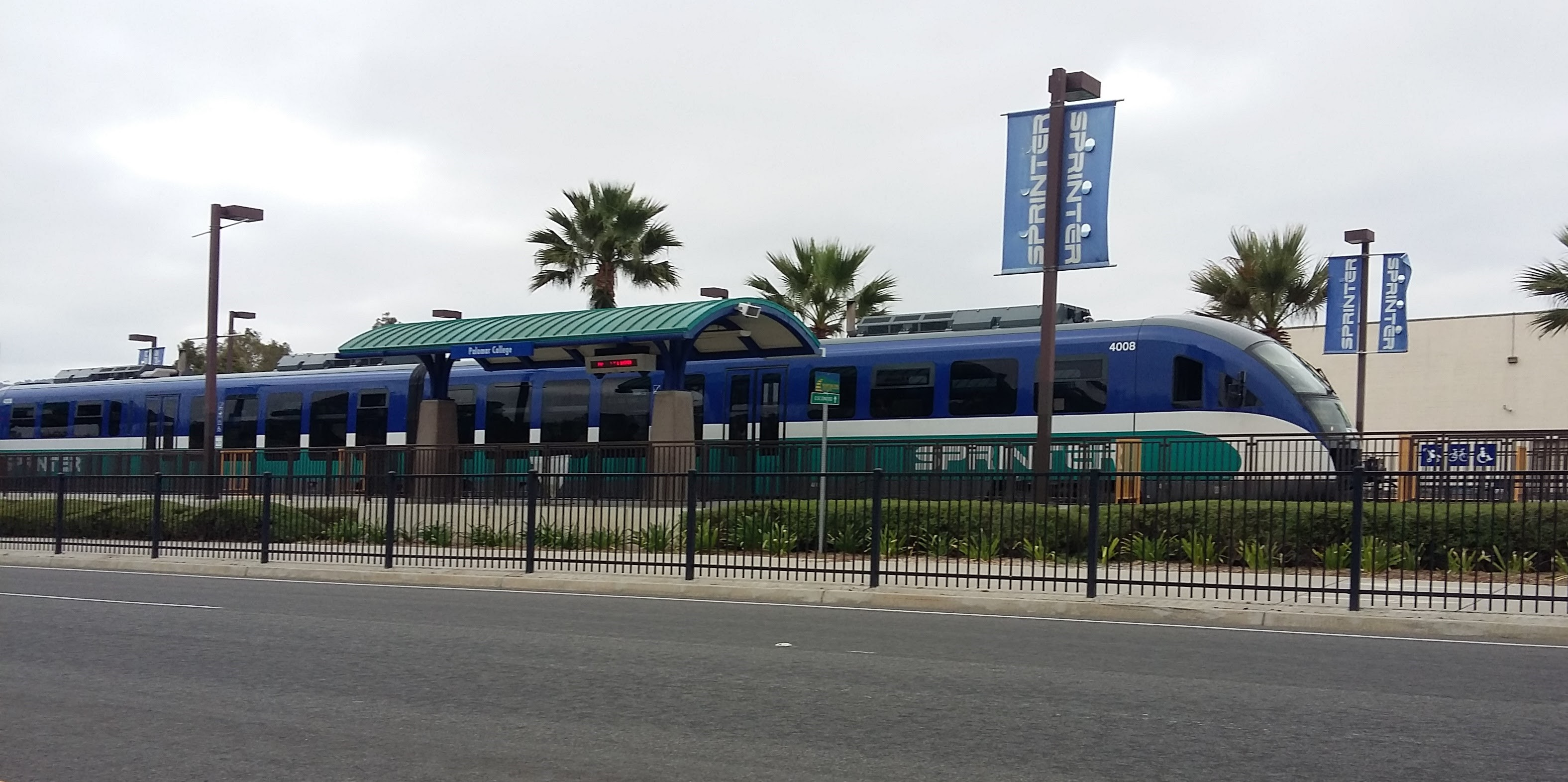 Palomar College station with Sprinter train from West Mission Road